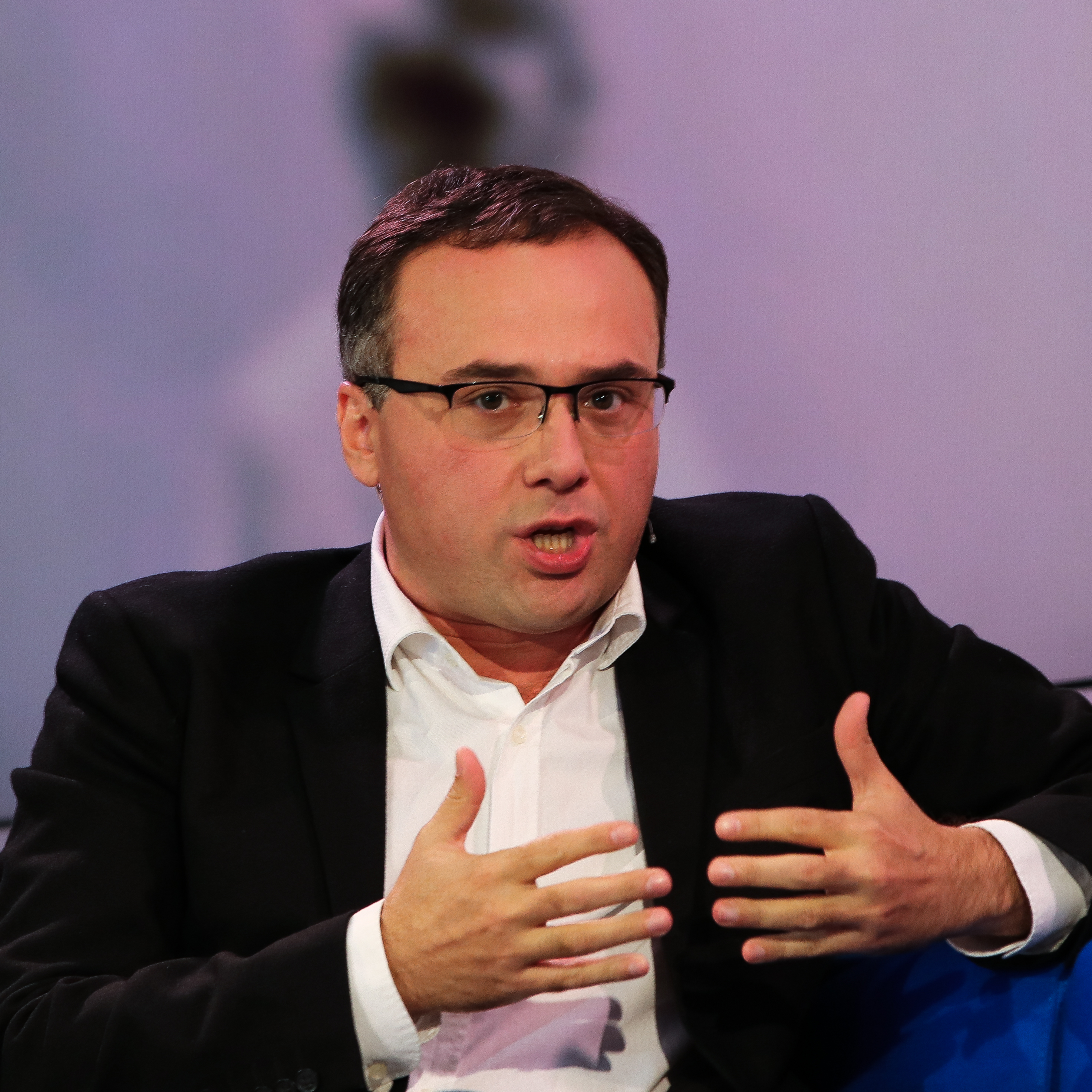 Lasha Bugadze at the Frankfurt bookfair 2018.